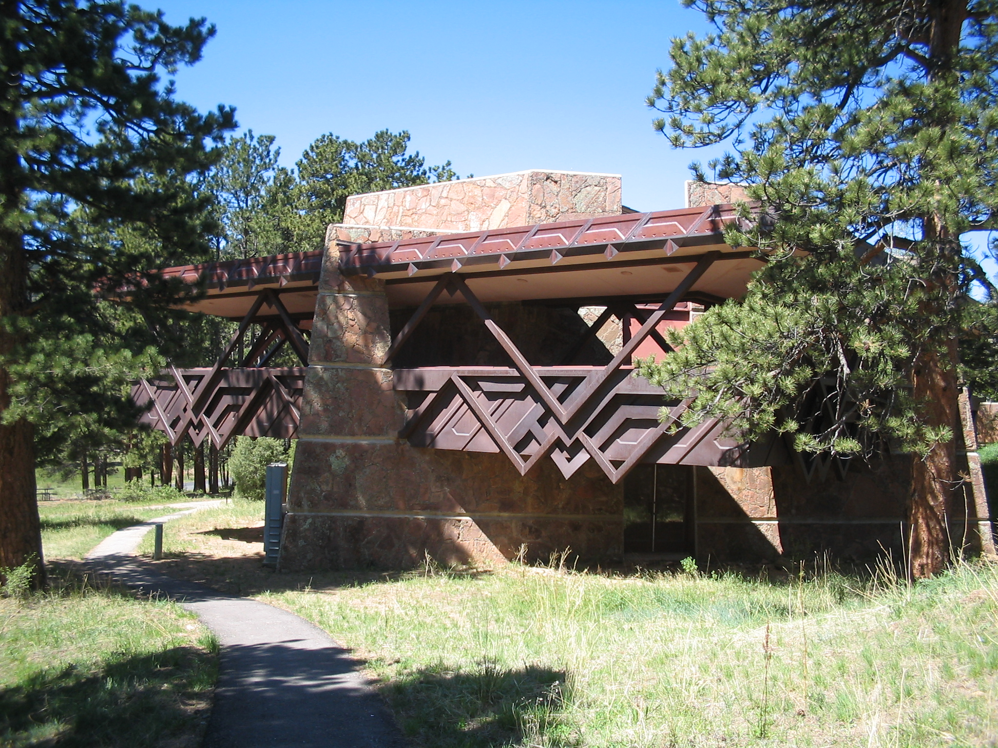 Beaver Meadows Visitor Center in Rocky Mountain National Park, Colorado. David Benbennick took this photo on May 27, 2005 at 11:15 AM (17:15 UTC).